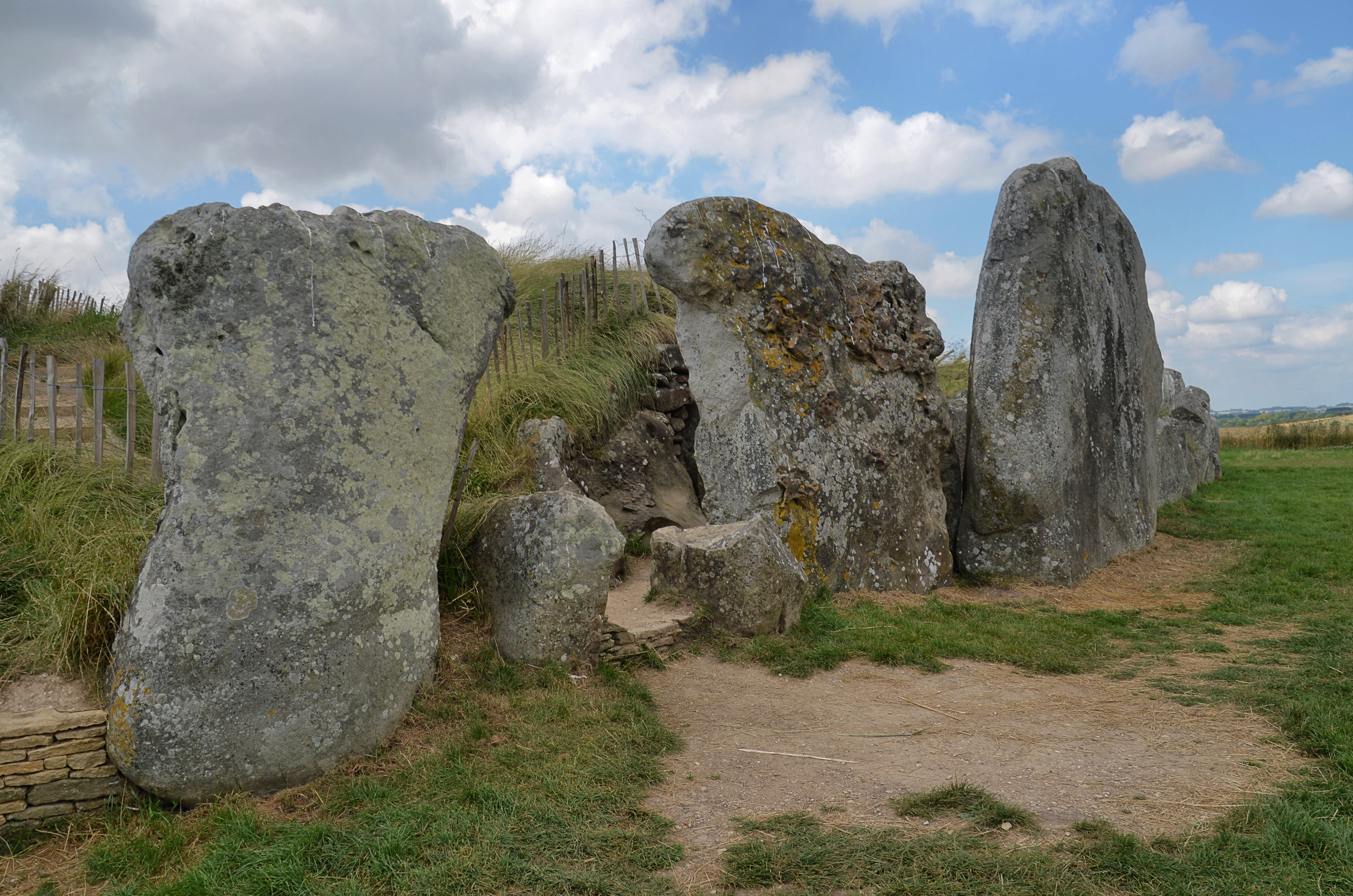 West Kennet long barrow, 800m south-east of Silbury Hill Wikidata has entry Q17648040 with data related to this item.